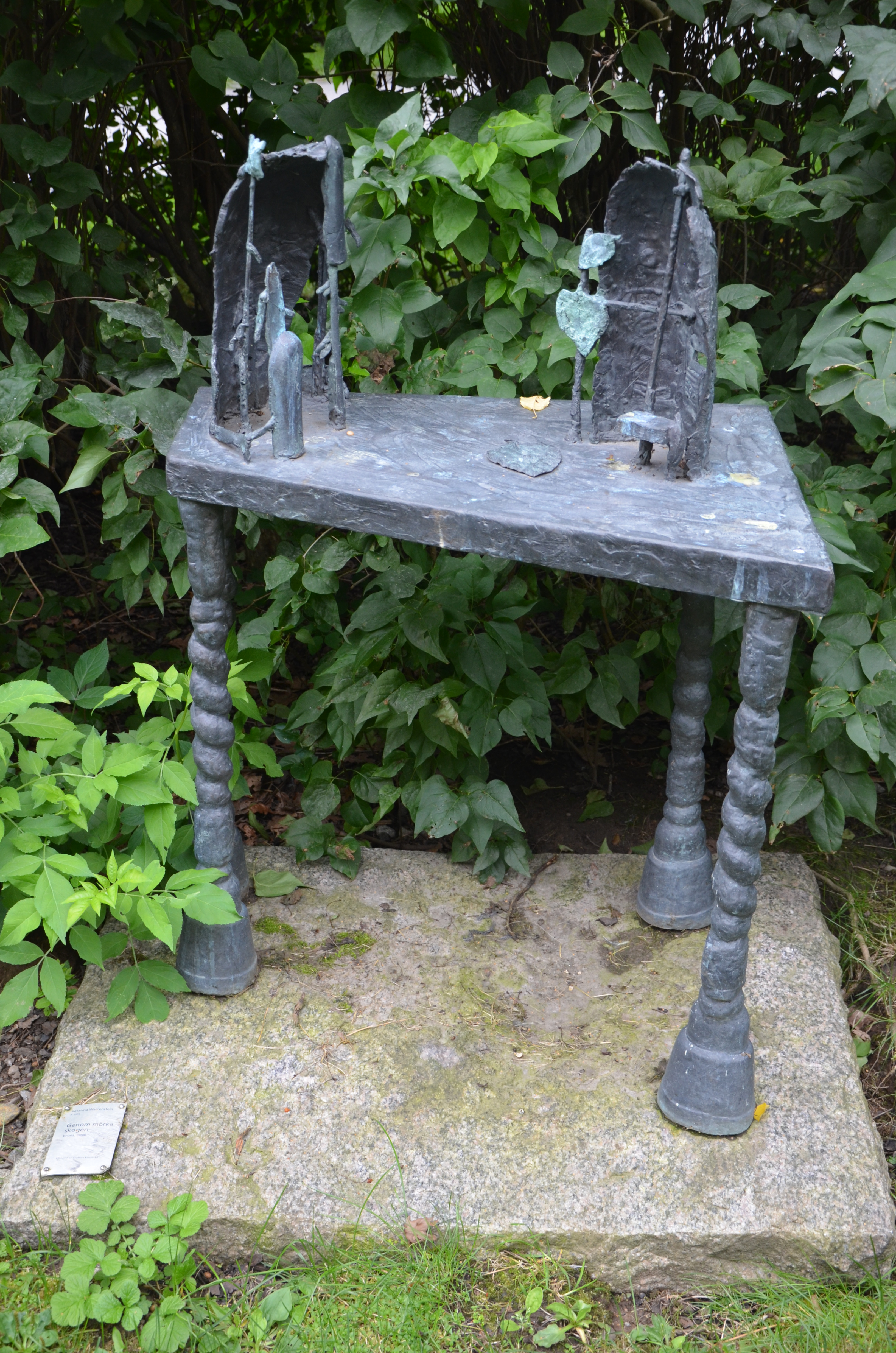 Katarina Warrenstein Genom mörka skogen, 1988, brons, Karolinska institutet